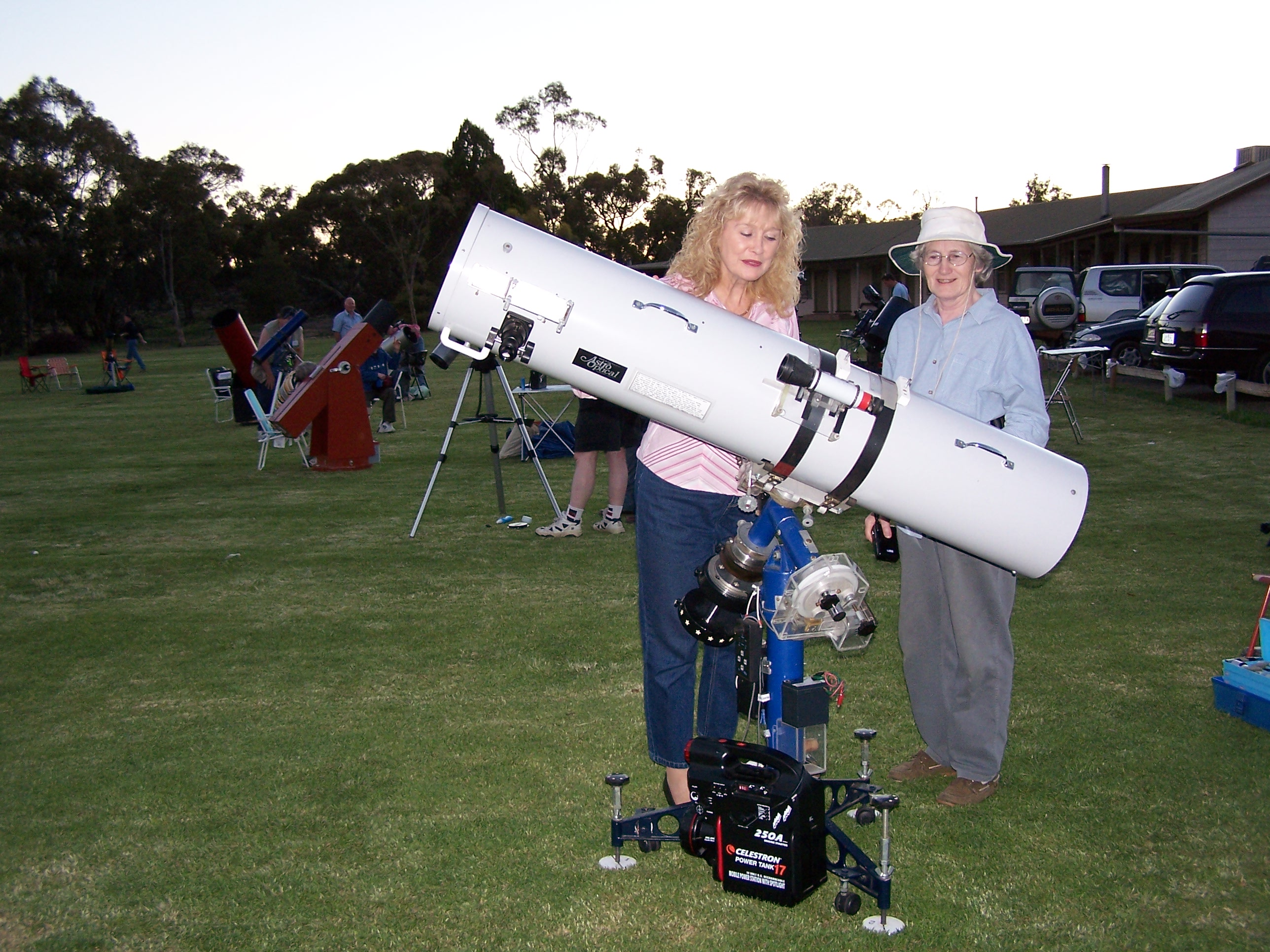 Setting up for a night of observing at VicSouth Star Party, jointly hosted by the Astronomical Society of Victoria and the Astronomical Society of South Australia.